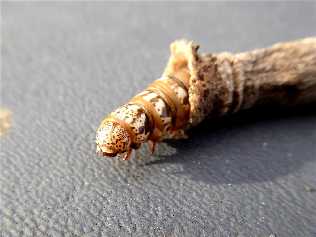 Liothula omnivora caterpillar. They rarely extend further out of the case than this.